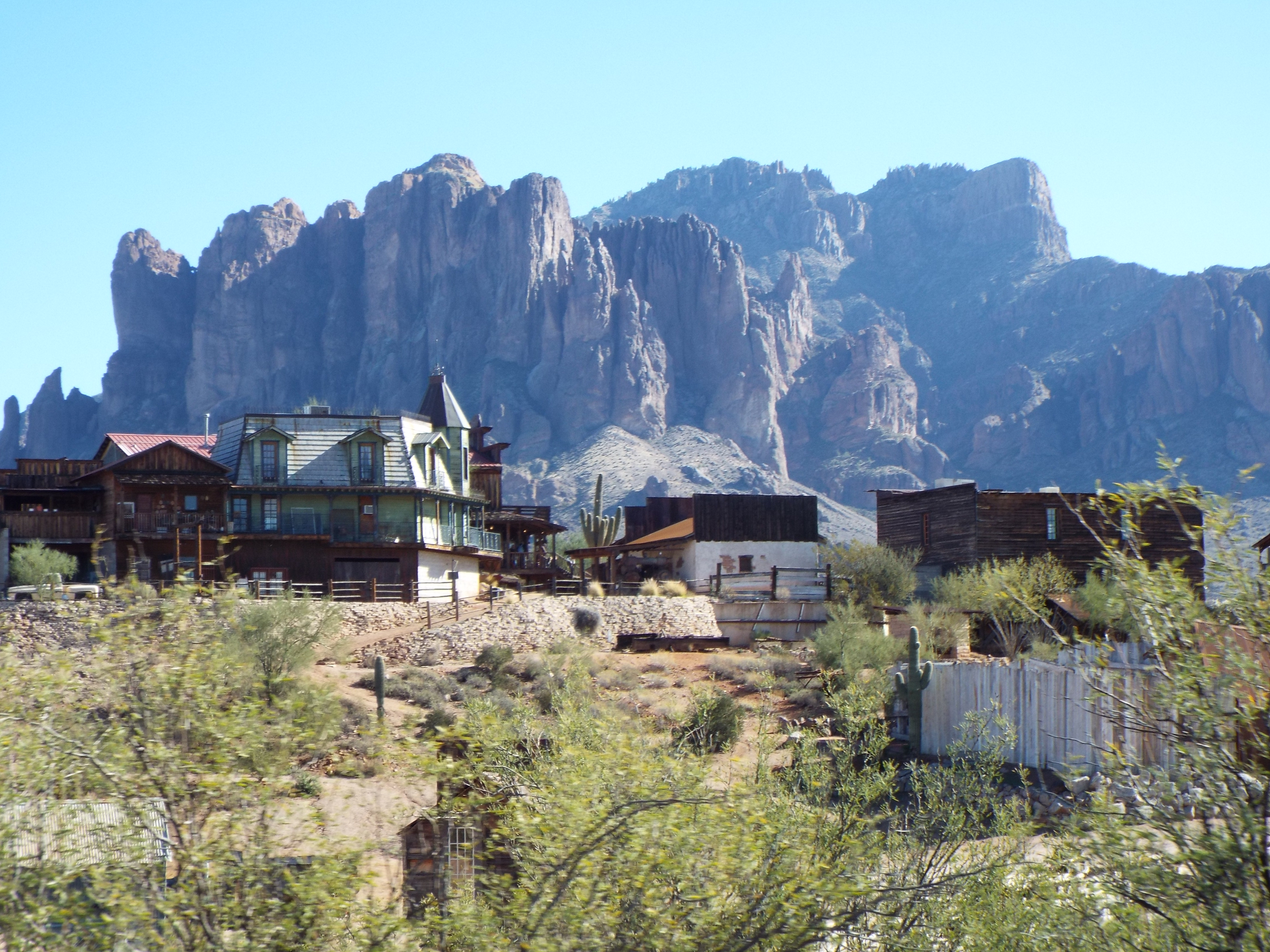 Goldfield Ghost Town-Superstition Mountan in the background in Arizona